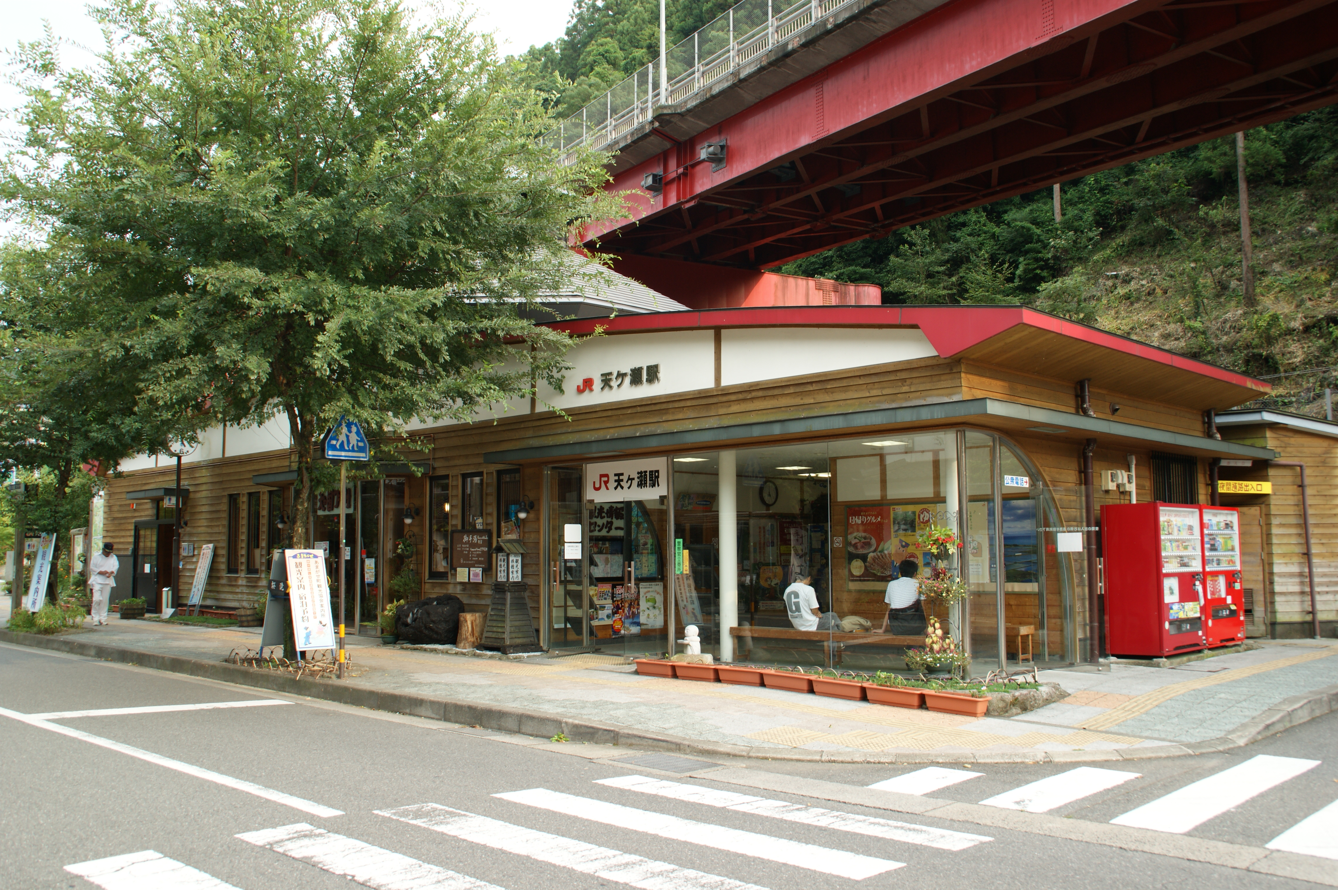 Kyushu Railway, Amagase Station.(Hita City, Oita Prefecture, Japan)